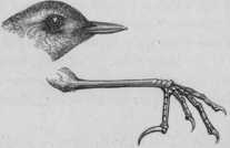 General characterisitics of wren bill.